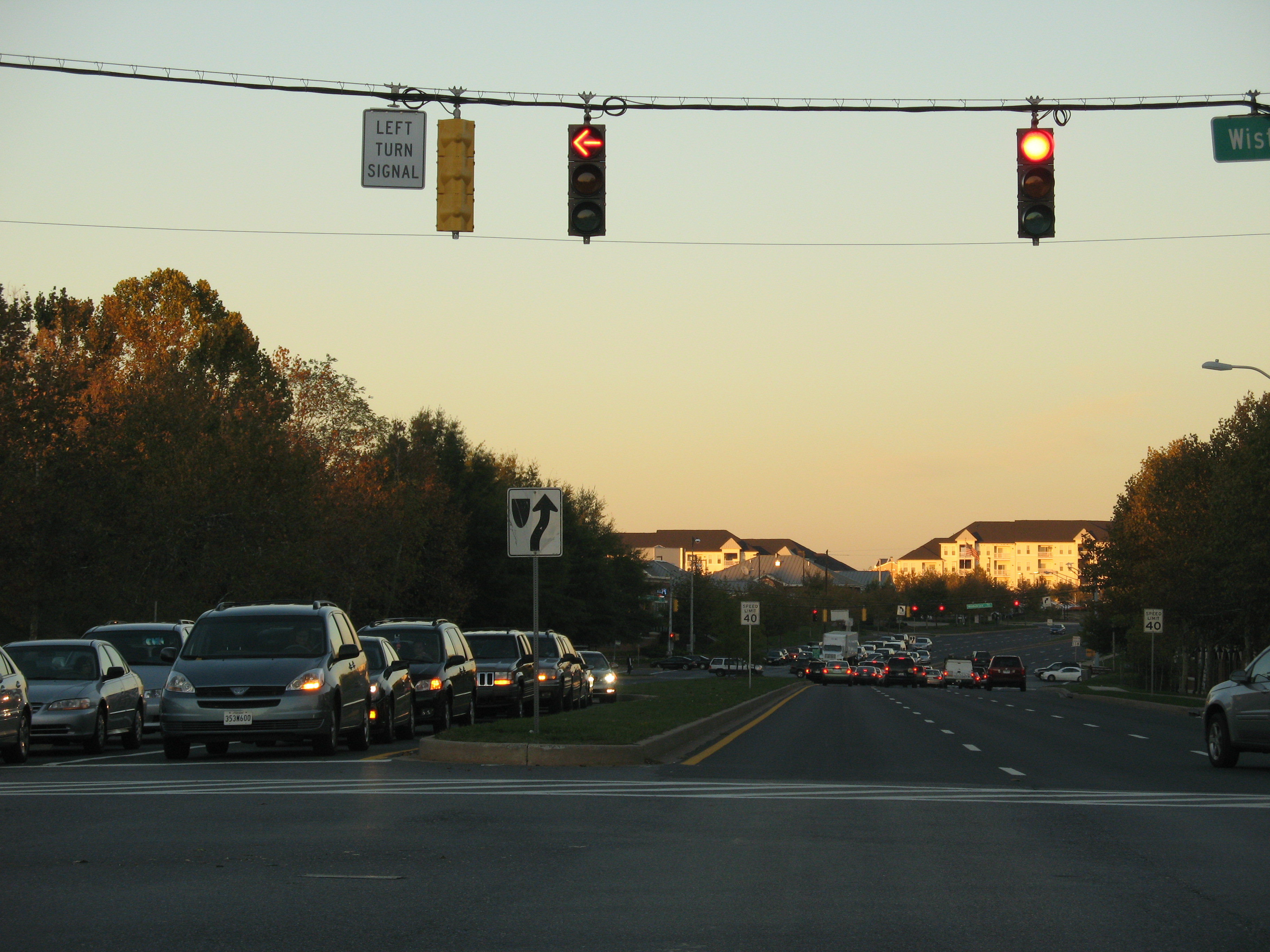 MD 118 (Germantown Road) at Wisteria Drive, Germantown, MD, USA